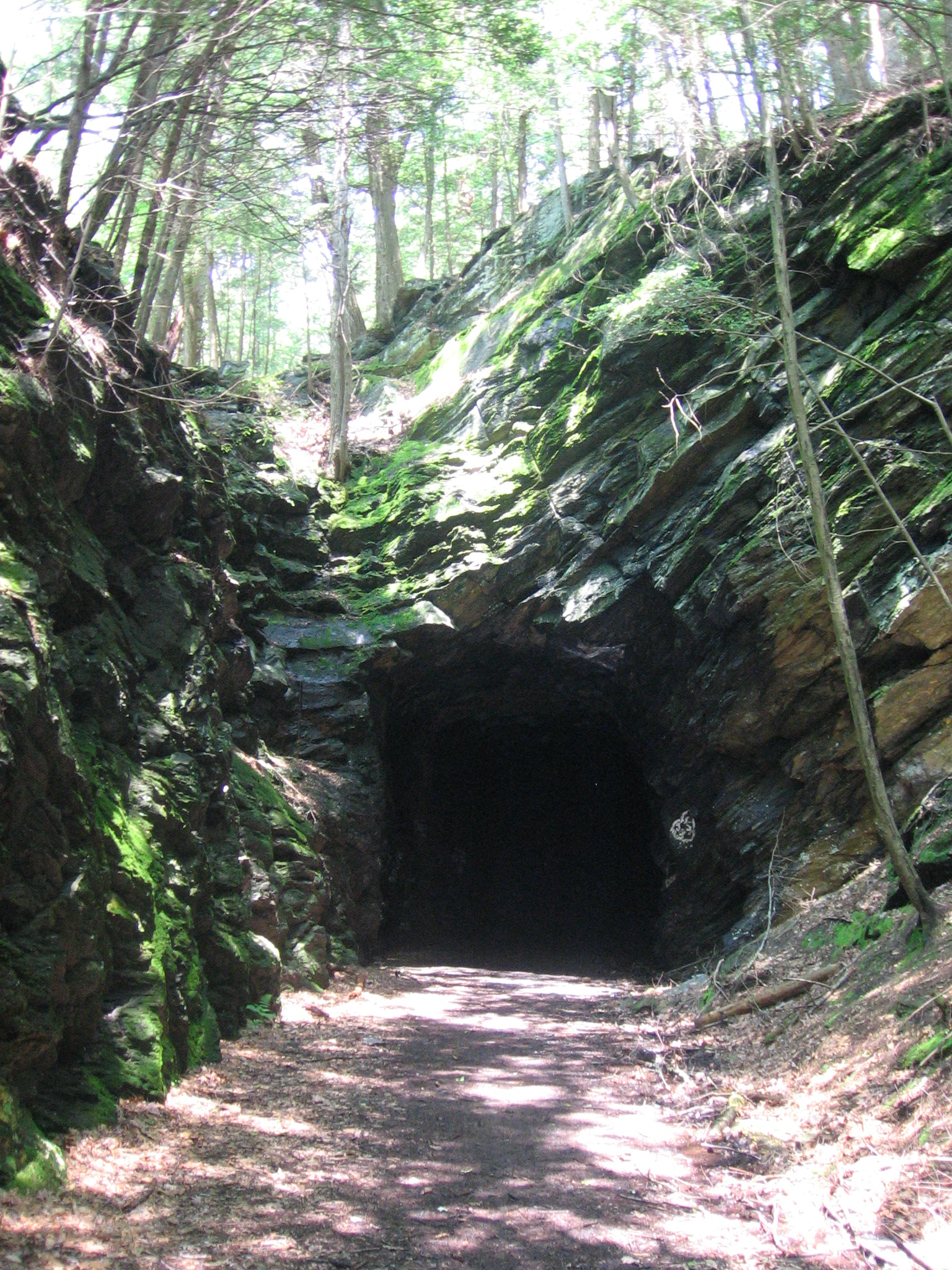 View looking northeast toward the south portal of the Shepaug tunnel along the former Shepaug Railroad in the Steep Rock Preserve in Washington, Connecticut.